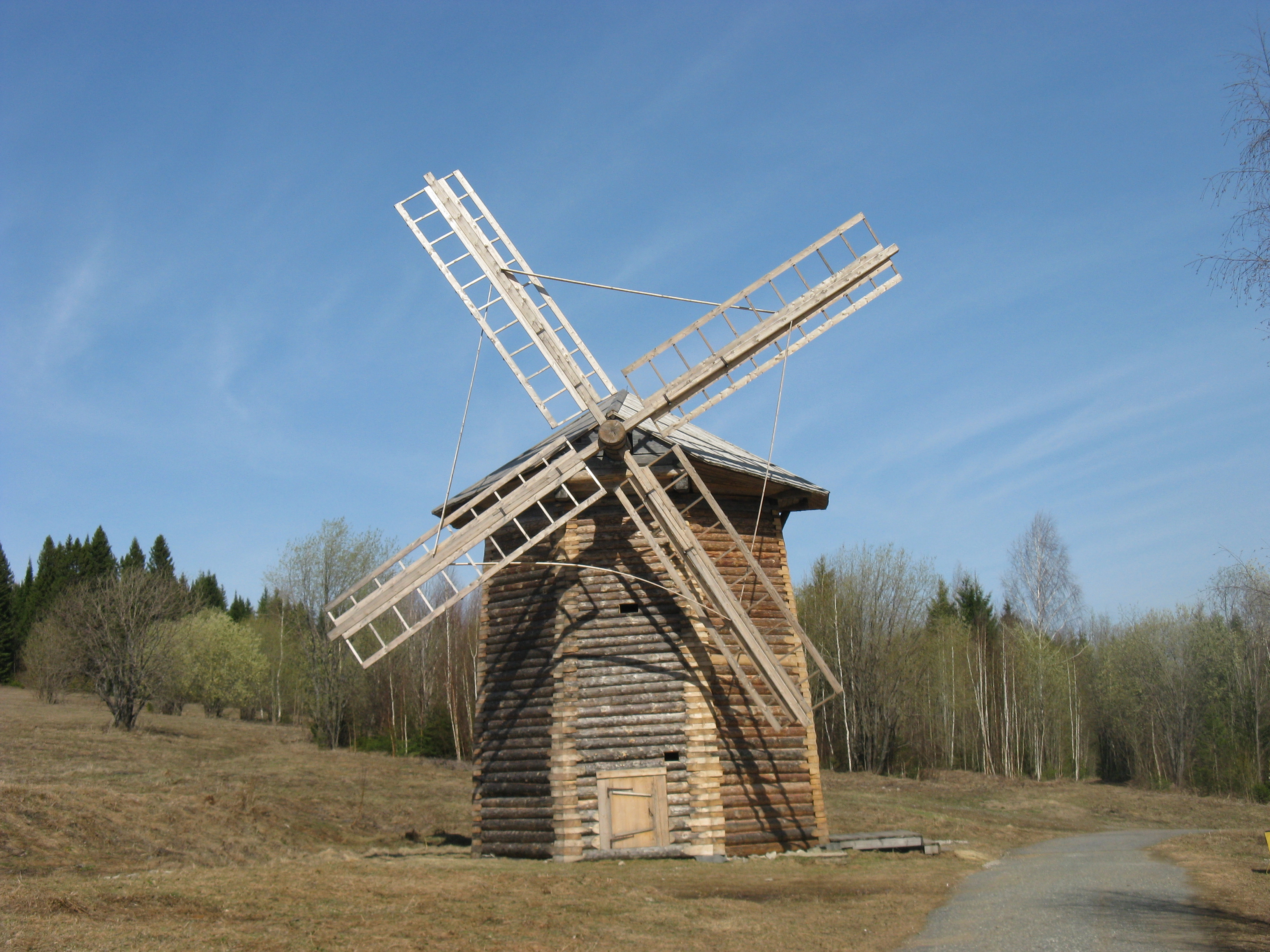 Windmill (XIX century) in architectural-ethnographic museum "Khokhlovka"